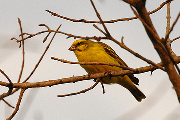 Uganda Yellow-fronted Canary (Serinus mozambicus) Queen Elizabeth NP, W. Uganda